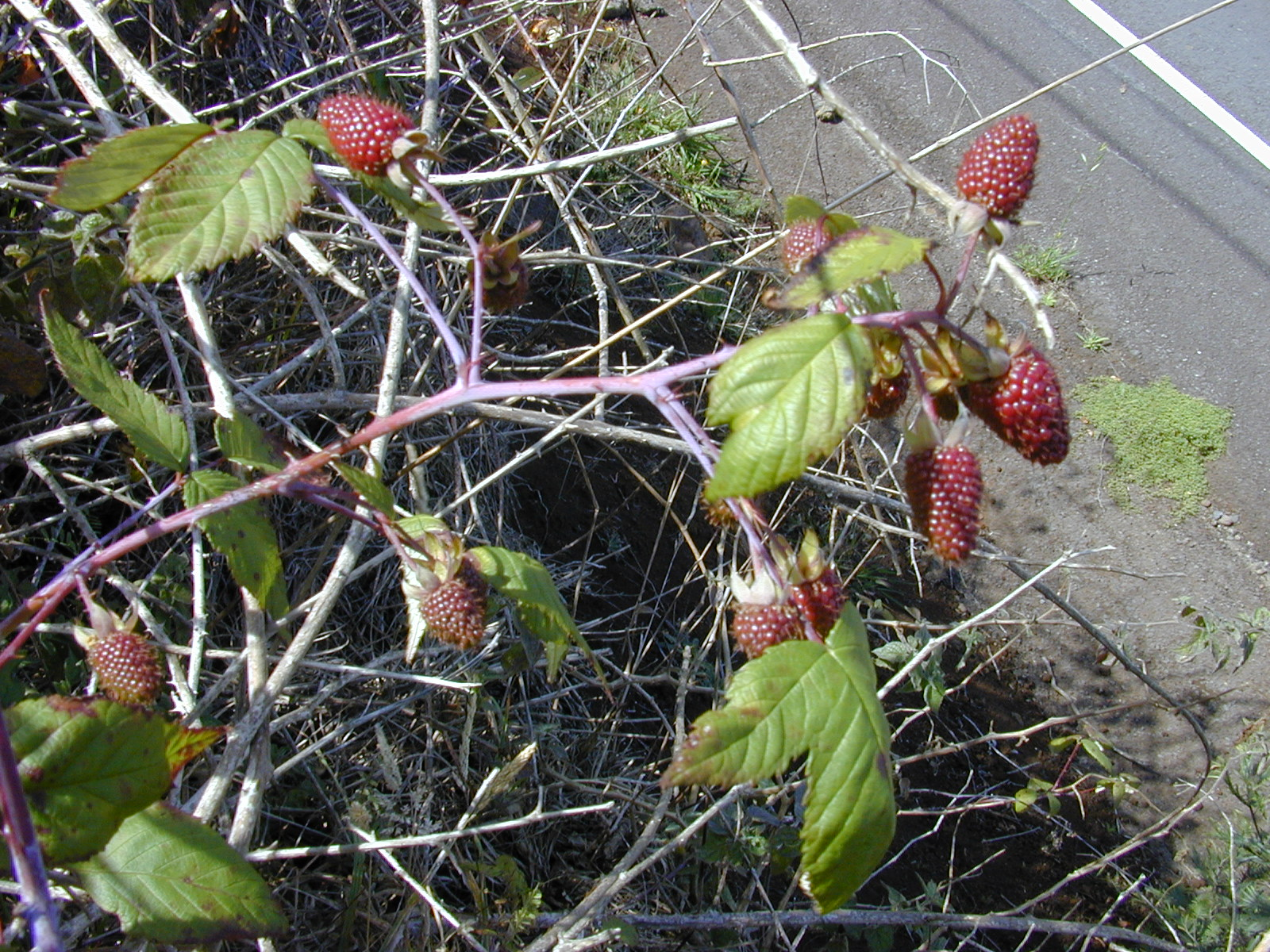 Rubus glaucus (fruit). Location: Maui, Crater Road Kula Haleakala National Park